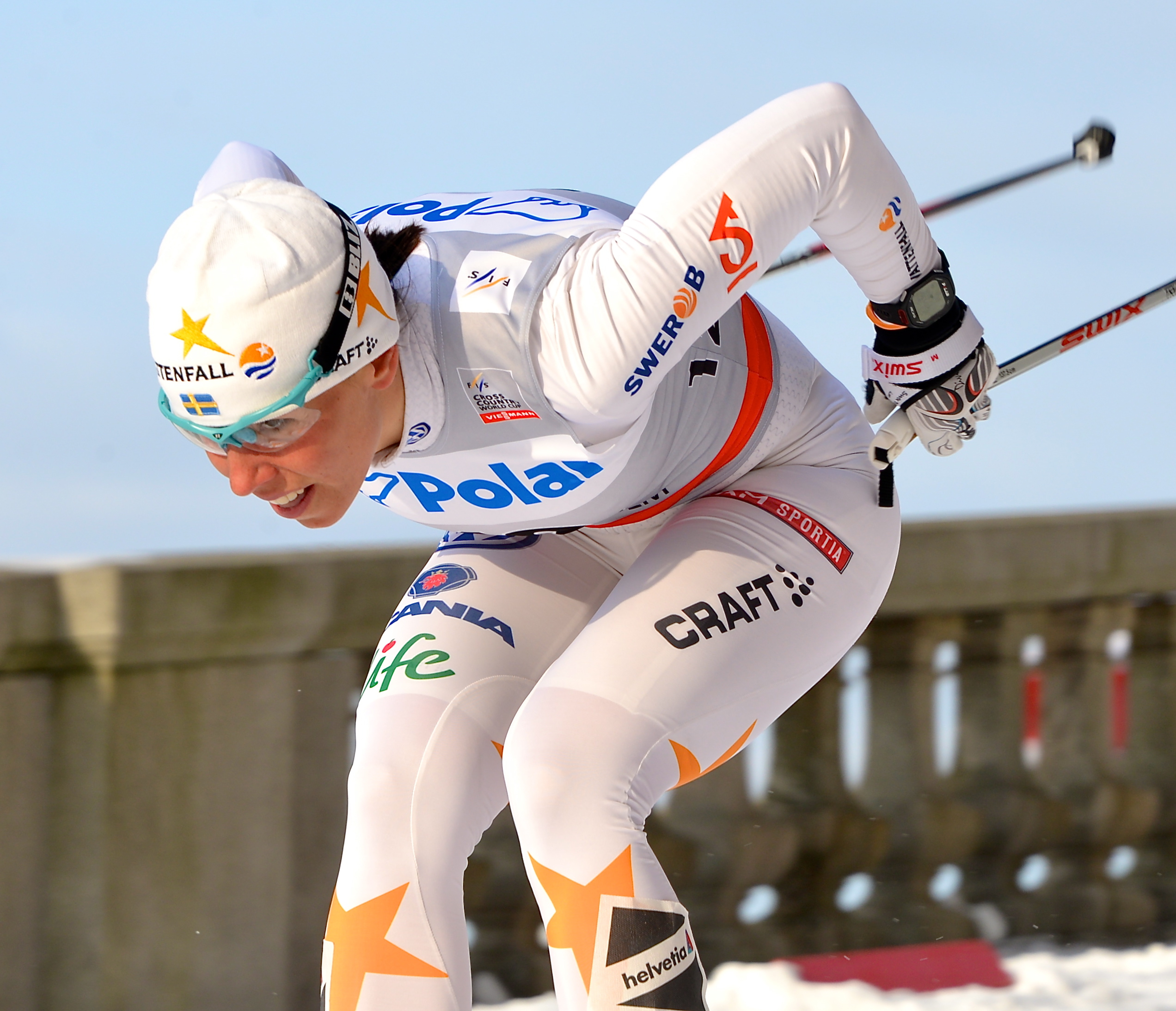 Charlotte Kalla at the Royal Palace Sprint, part of the FIS World Cup 2012/2013, in Stockholm on March 20, 2013.